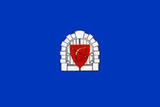 Ialoveni District flag